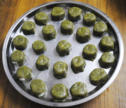 One of the best and unique sweet of Surat City, Gujarat - Bharata. This is usually made by Surtis on Chandani Padva. On Chandani Padva, Surat's people go to chowpati, picnic parks, gardens with friends and relatives. Where they bring different types of Ghari and some snacks with them and then they exchange different taste of different Gharis.